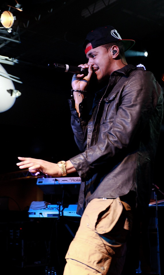 It is a photo of J.Cole performing in London, 2011.